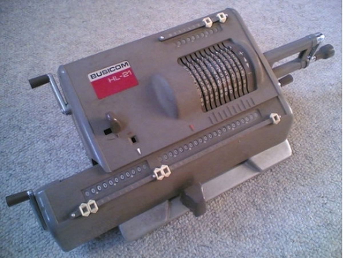 Pinwheel calculator Busicom_HL-21